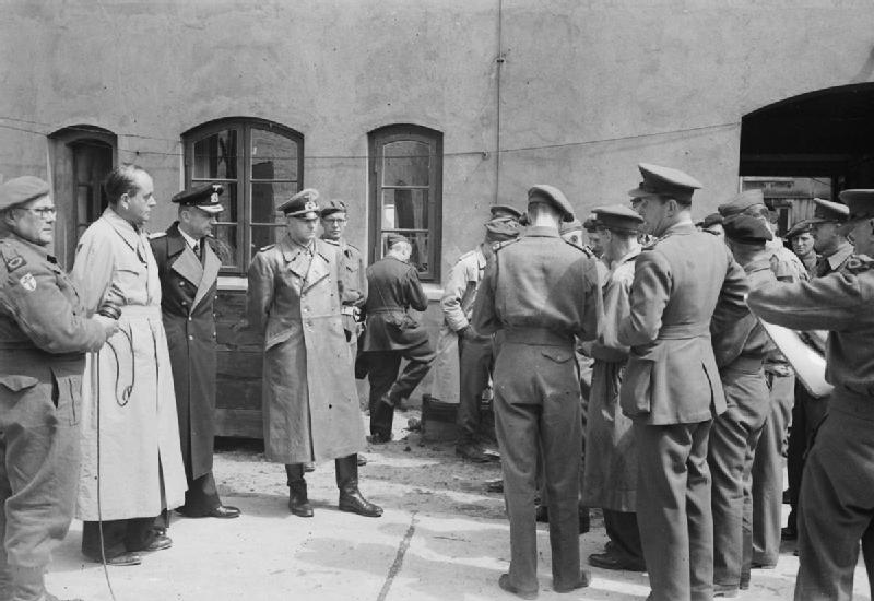 Nazi Personalities Generaloberst Alfred Jodl (1890 - 1946): Jodl in British custody after his arrest at Flensburg.